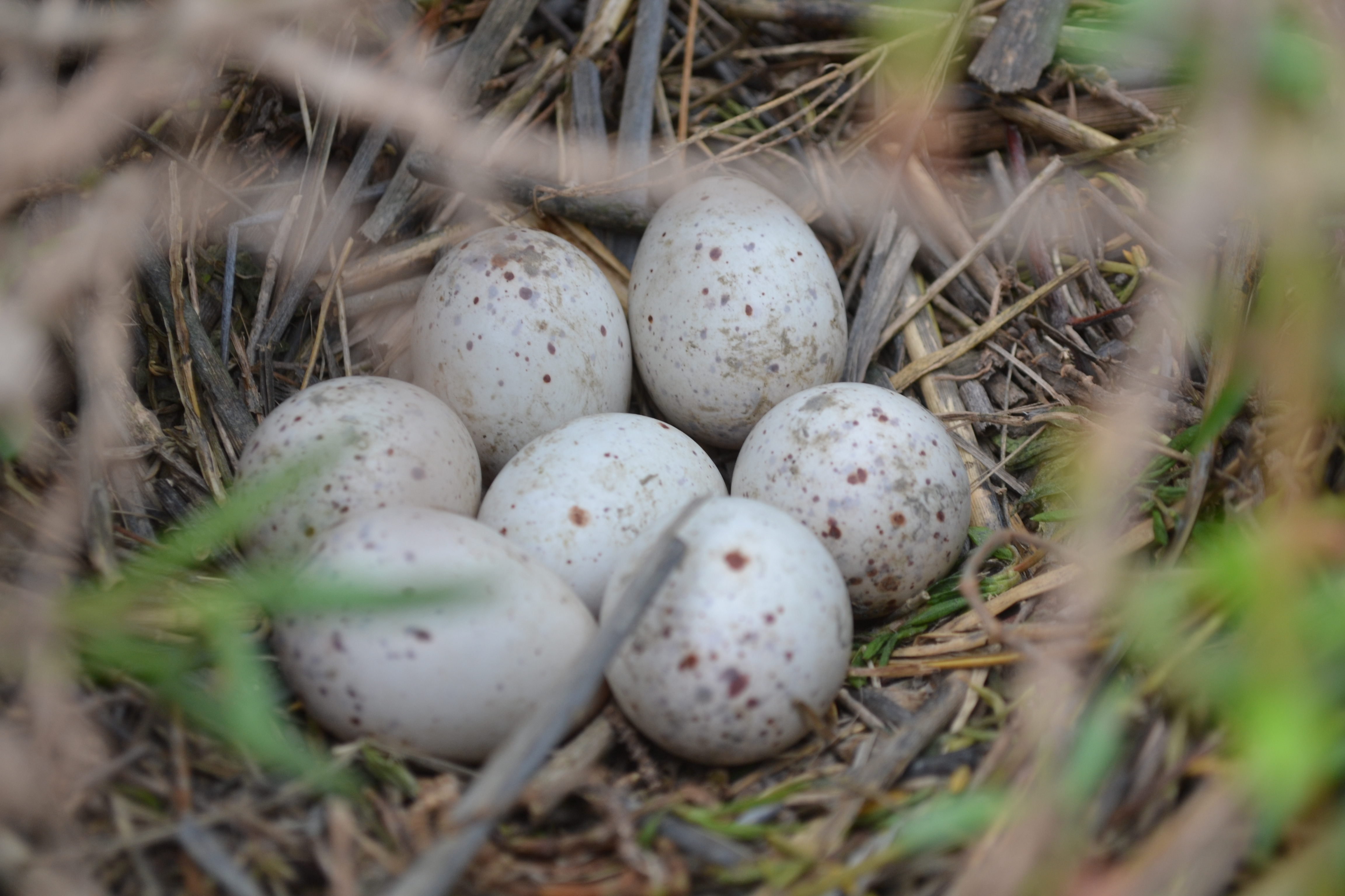 Eggs of Light-footed Ridgway's Rail Rallus obsoletus levipes, Tijuana Slough National Wildlife Refuge